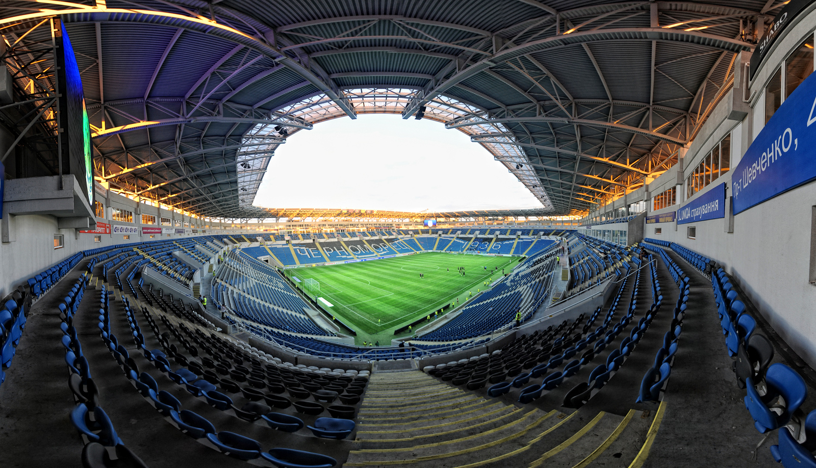 Chornomorets Stadium in Odesa, Ukraine